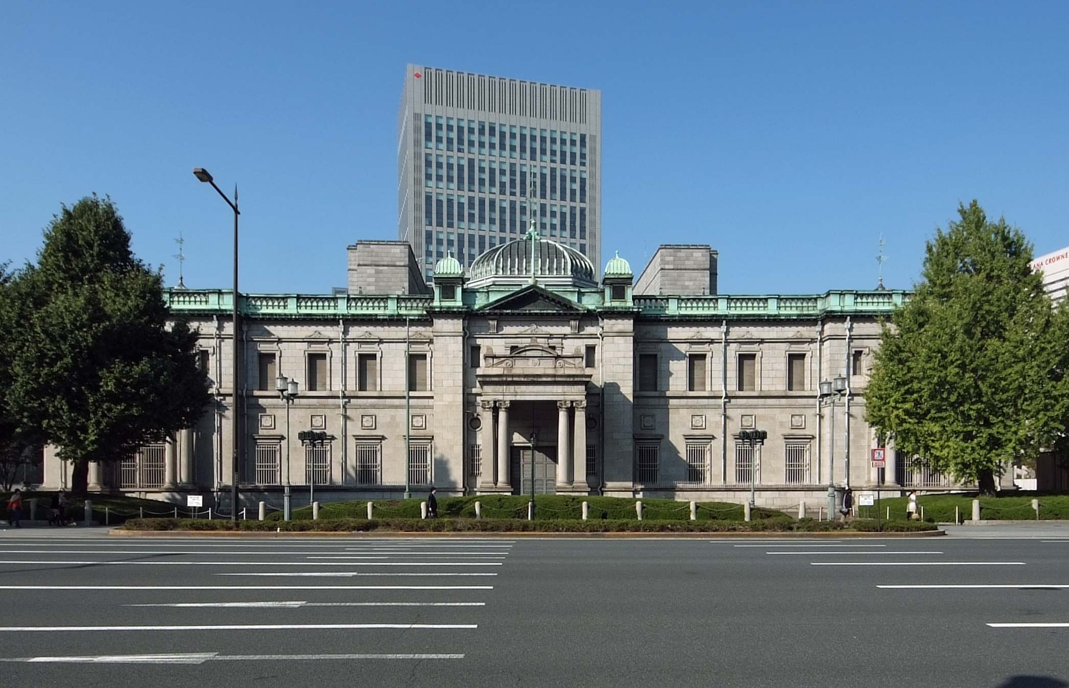 Bank of Japan Osaka branch in Kita-ku, Osaka, Japan, designed by Kingo Taysuno in 1903.